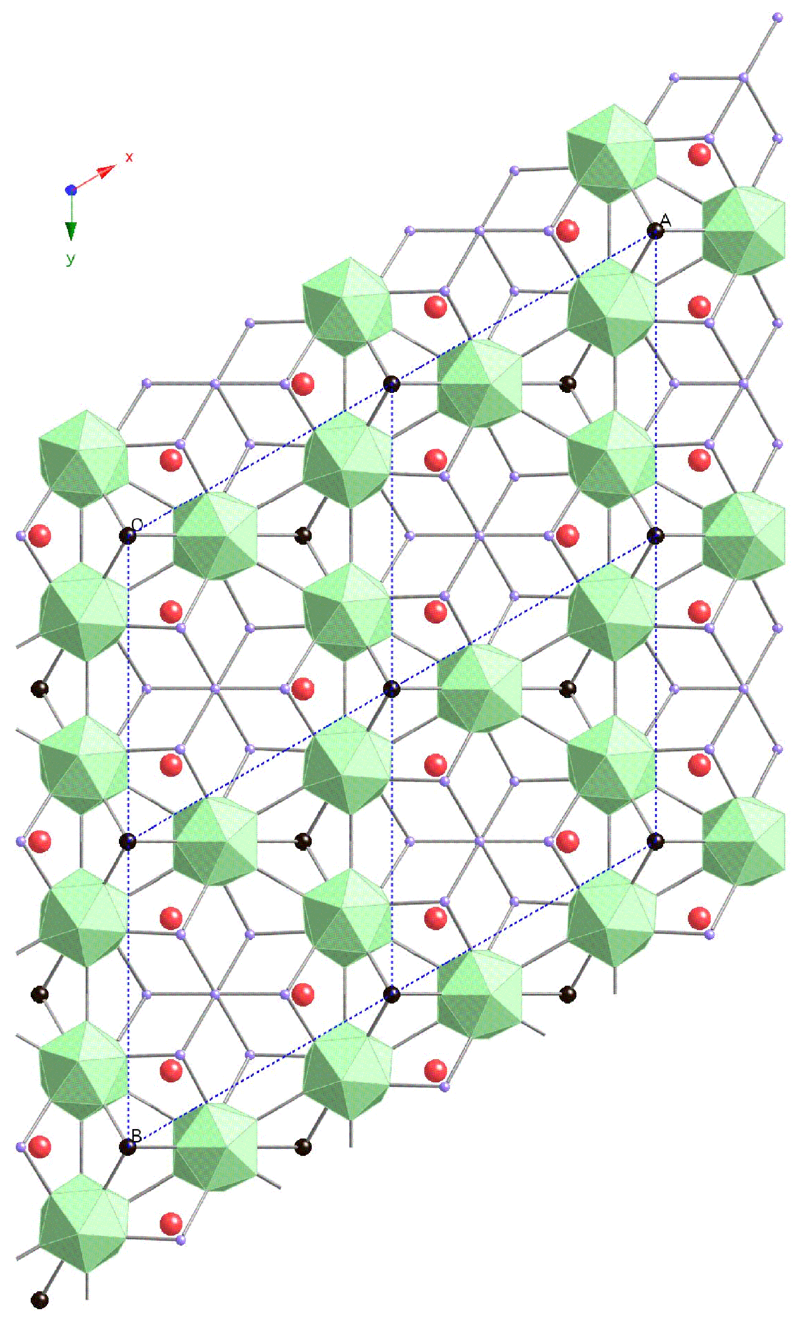 Crystal structure of RExB12C0.33Si3.0; a network of boron icosahedra lying in the (001) plane. Black, blue and red spheres correspond to C, Si and Y atoms, respectively.